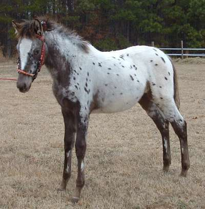 Spanish Jennet Blanket Pattern